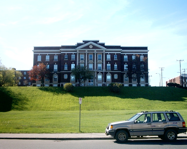 Ontario Superior Court in Thunder Bay, Ontario